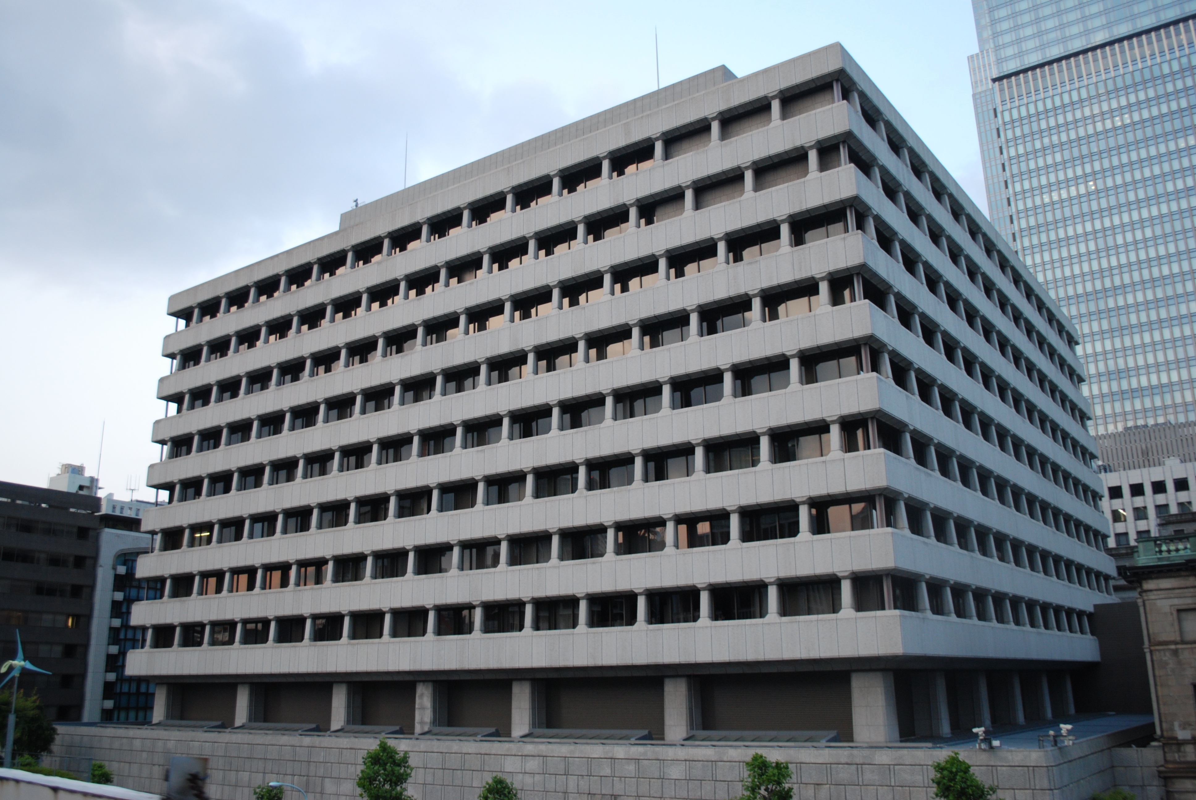 Bank of Japan Head Office,Chuo-city,Tokyo,Japan